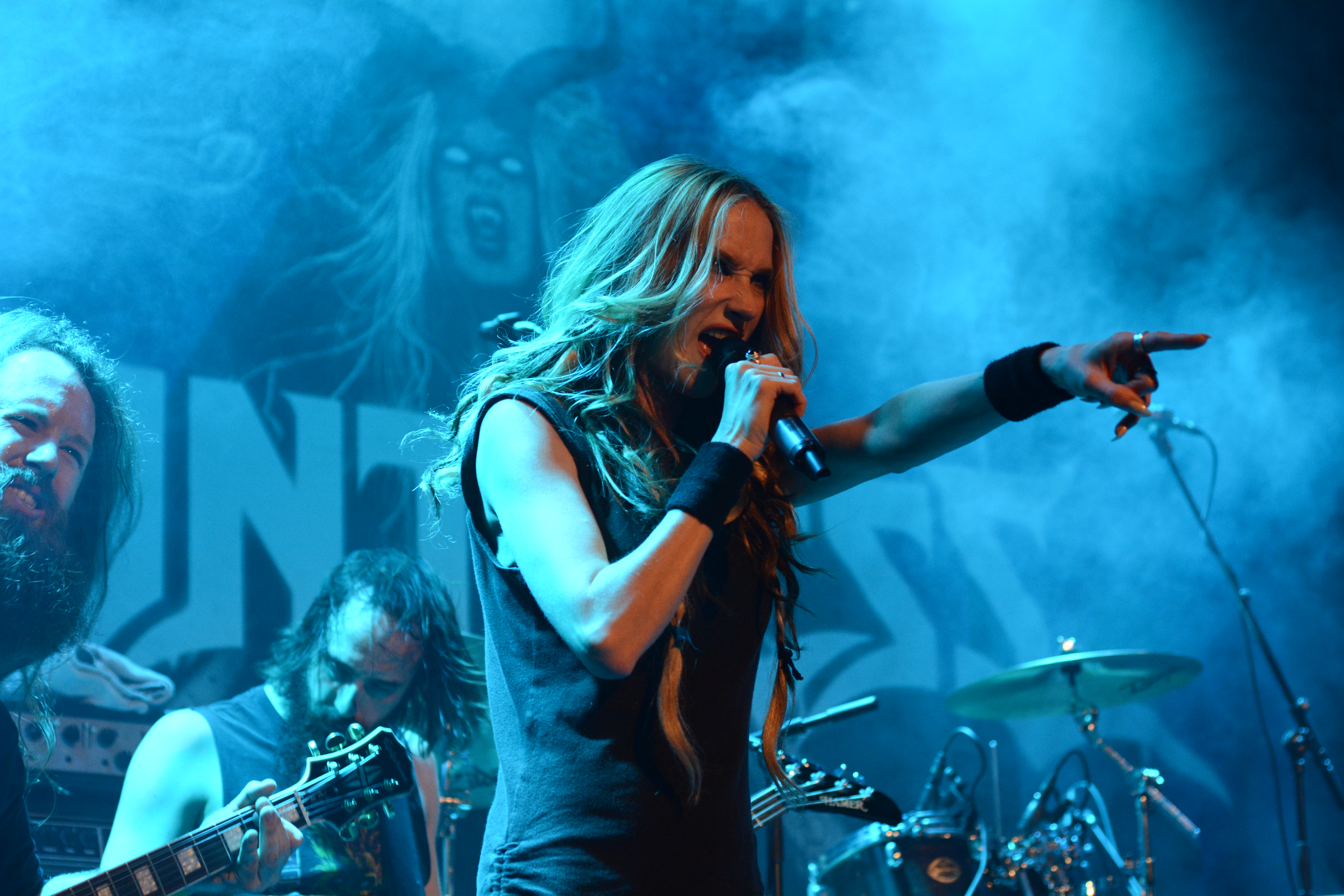 Huntress in concert